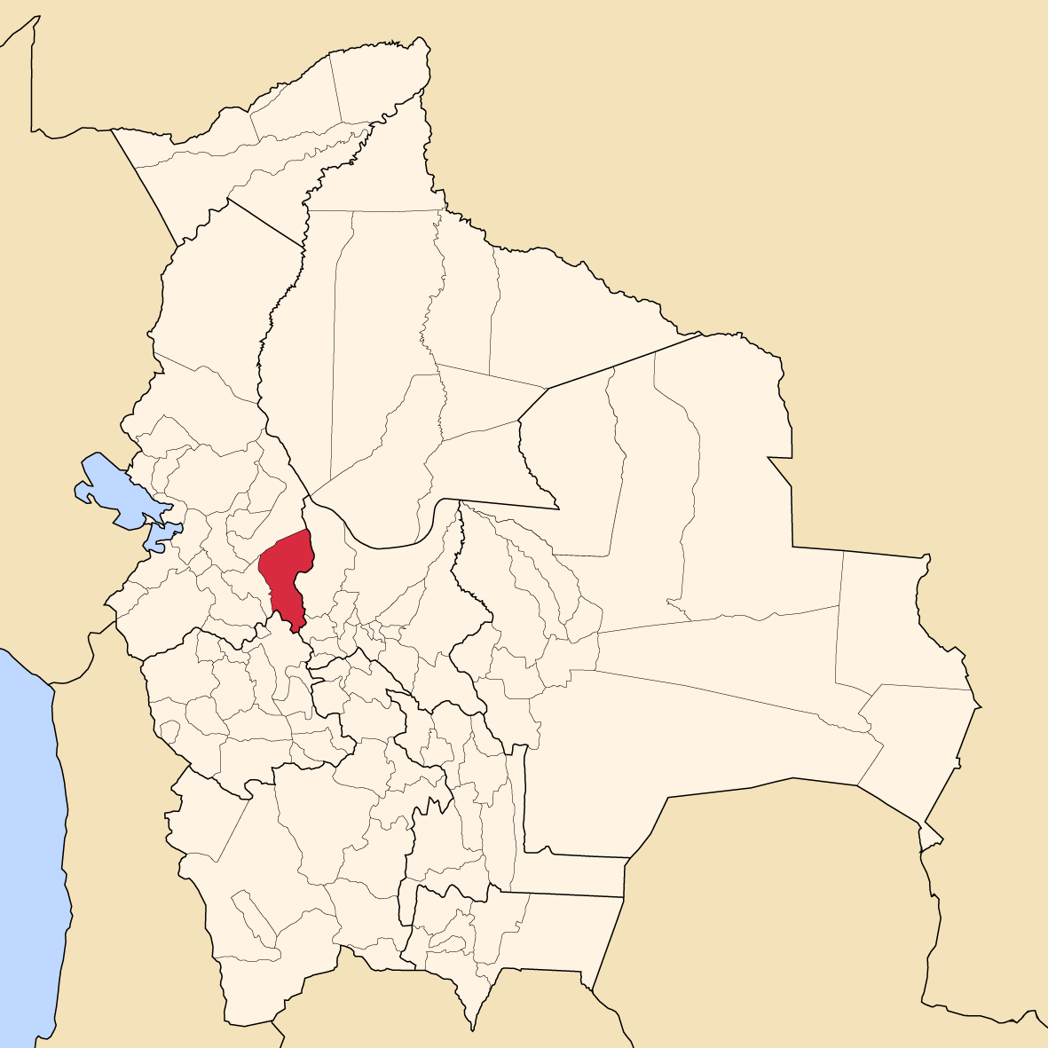 Map of Bolivia showing Inquisivi province, La Paz